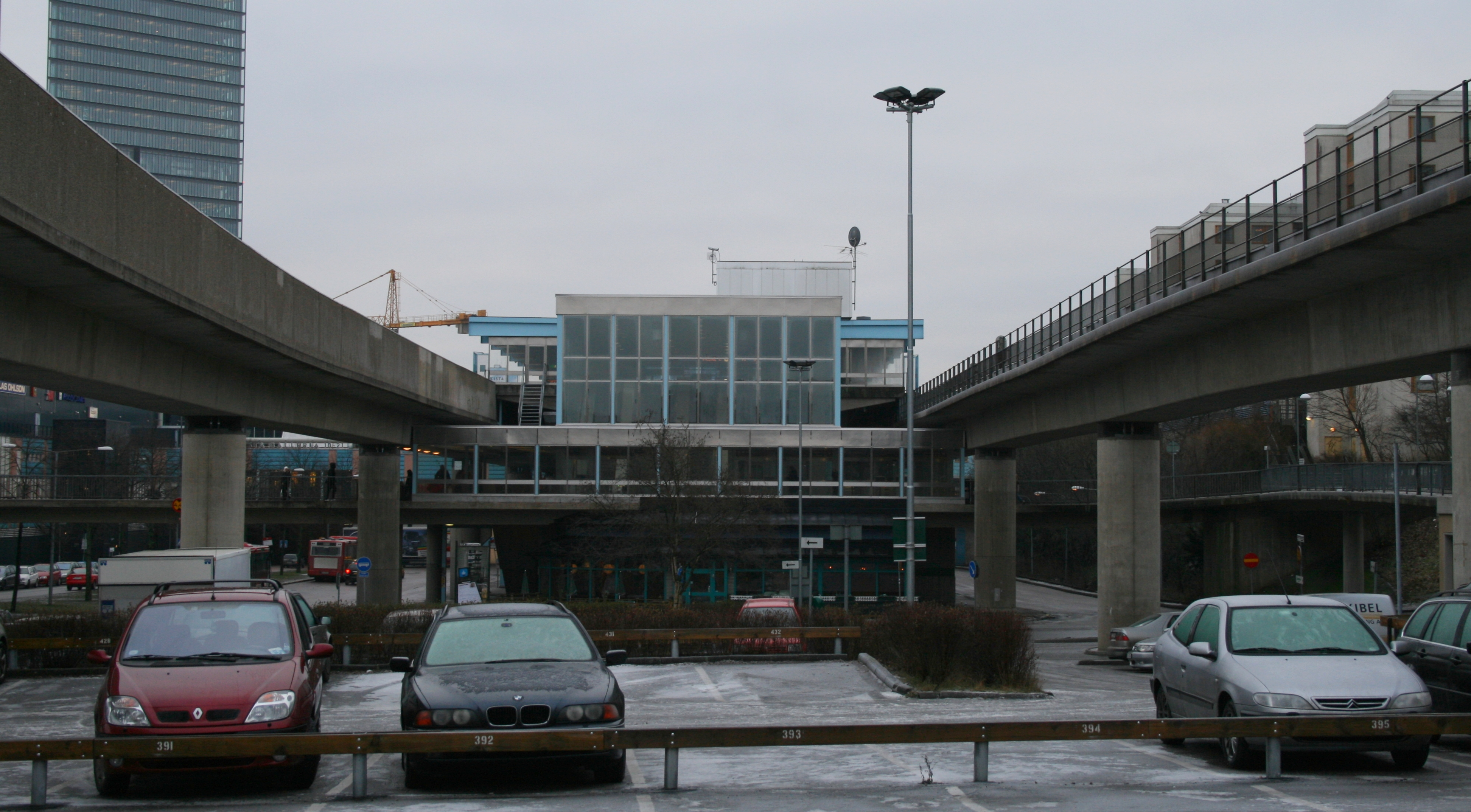 Kista metro station, Stockholm, Sweden